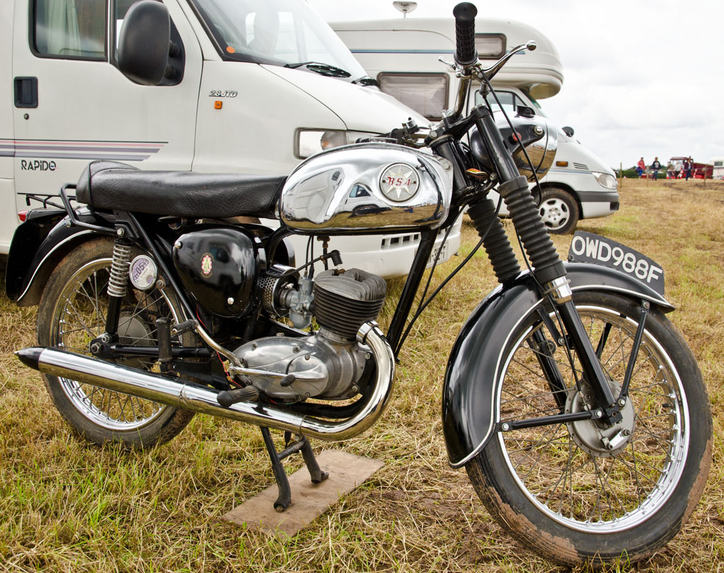 Cheshire Steam Fair 14/07/2012.